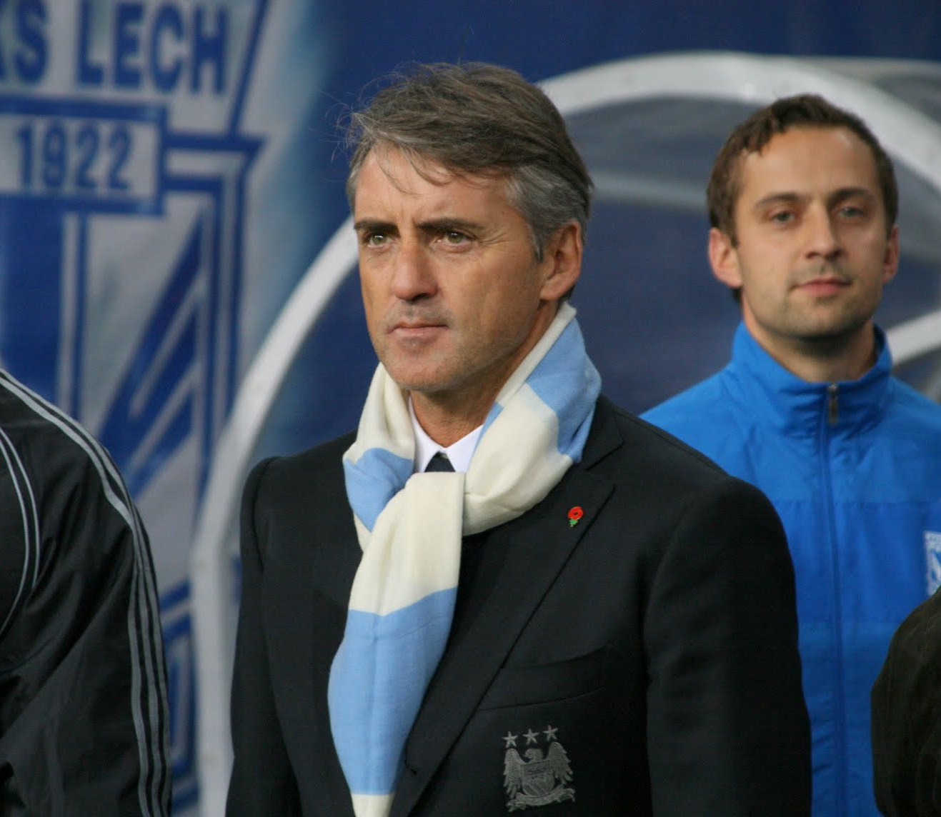 Roberto Mancini Lech Poznań vs Manchester City FC, 4 November, 2010